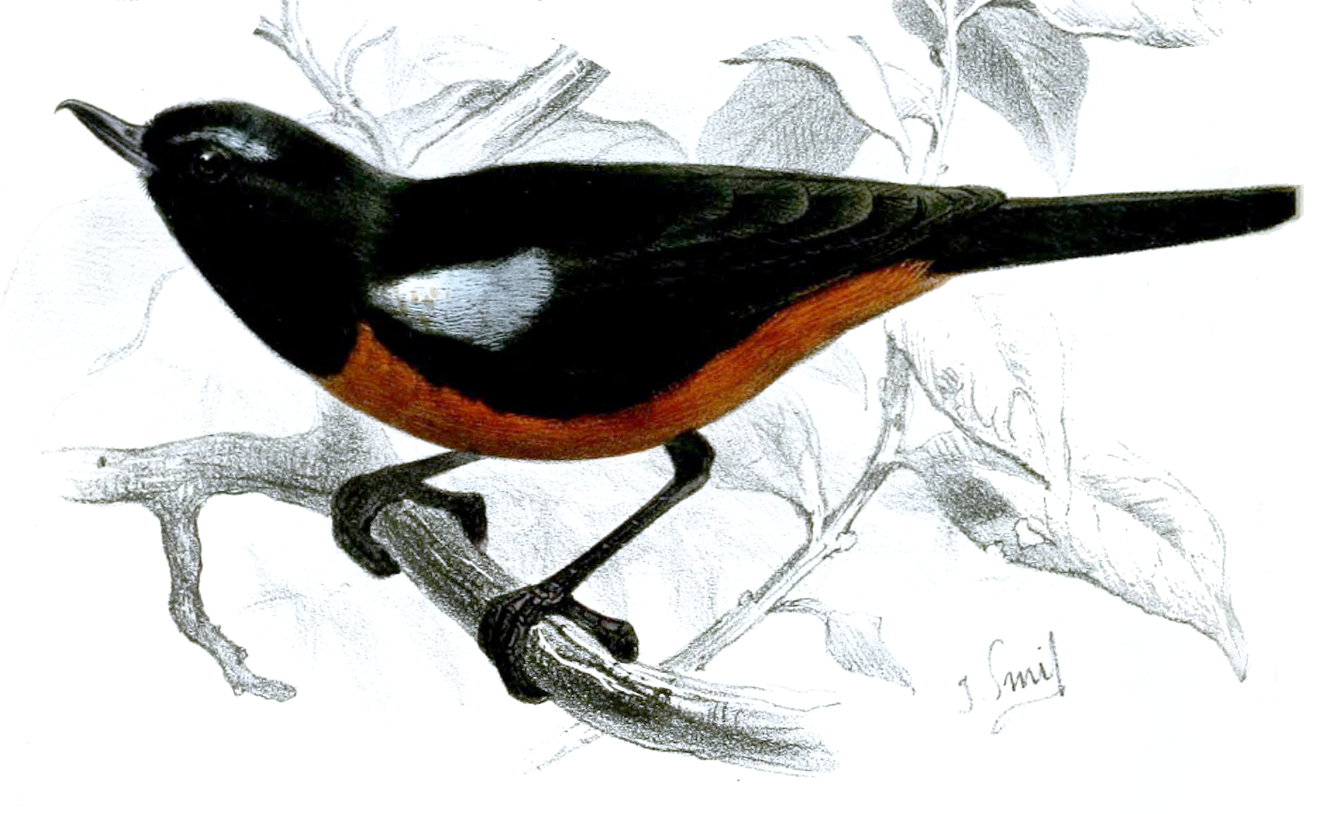 Mérida Flowerpiercer, adult male